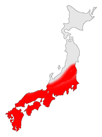 disribution map of Japanese boar Drawer:Eurovich of the Comacontrol